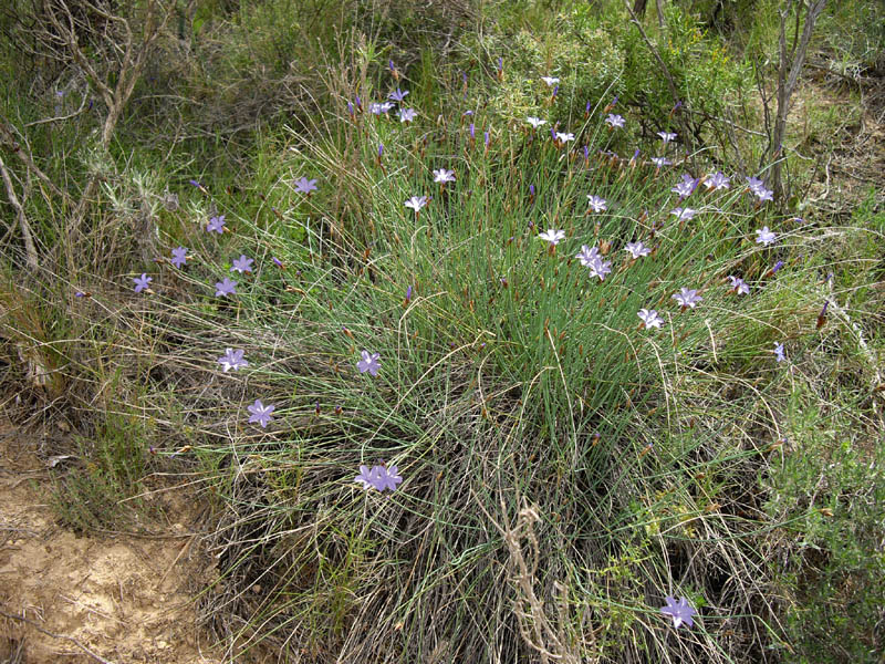 Aphyllanthes monspeliensis